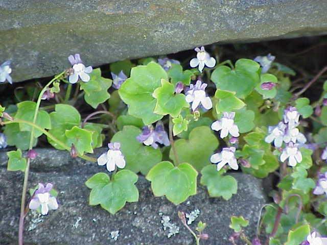 Species: Cymbalaria muralis Family: Scrophulariaceae Image No. 1